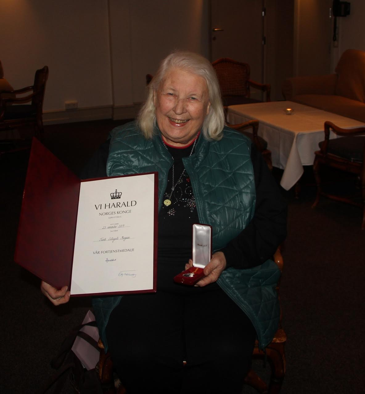 Turid with her Badge of Honour from the Norwegian King, RH King Harald VI, recognizing her lifetime of contribution to the field of canine behaviour and welfare.